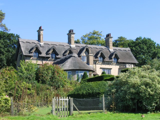 How Hill House. This house was built in 1904 by architect Edward Thomas Boardman as a holiday home